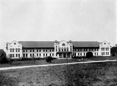 Original Converse Hall at GSWC (now VSU)